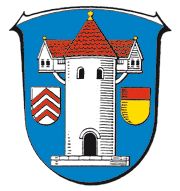 Coat of Arms of Butzbach